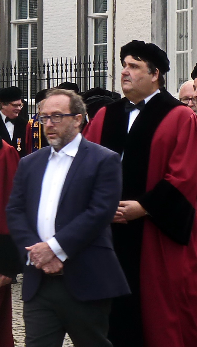 Wikipedia founder Jimmy Wales and Maastricht University president Martin Paul at the university 39th dies natalis (birthday) in 2015, at which occasion Wales received an honourary PhD.